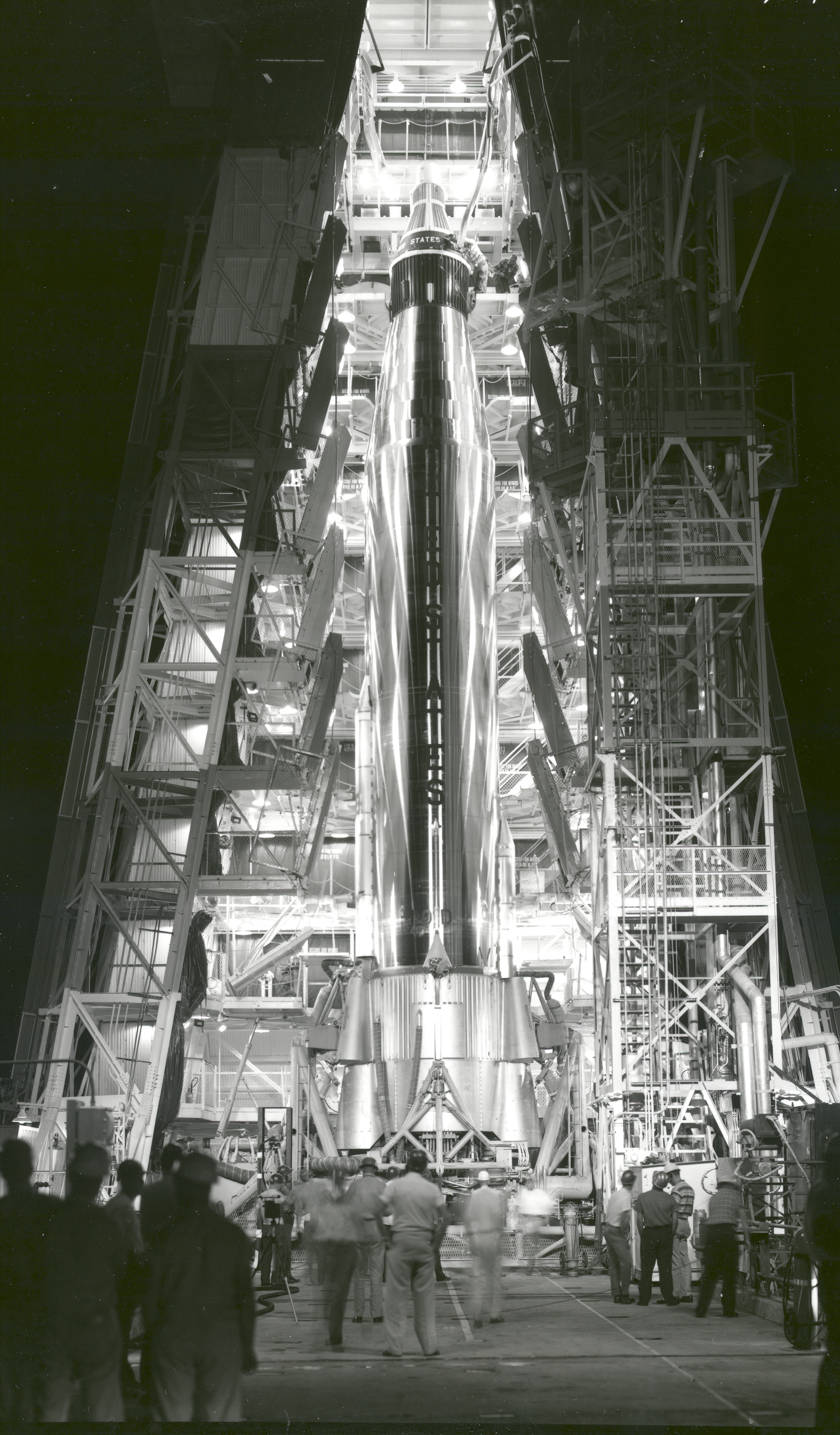 Big Joe ready for launch at Cape Canaveral, FL. The objective of "Big Joe" was to test the ablating heatshield. The flight was both a success and failure - the heatshield survived reentry and was in remarkably good condition when retrieved from the Atlantic. The Atlas-D booster, however, failed to stage and separated too late from the Mercury capsule.